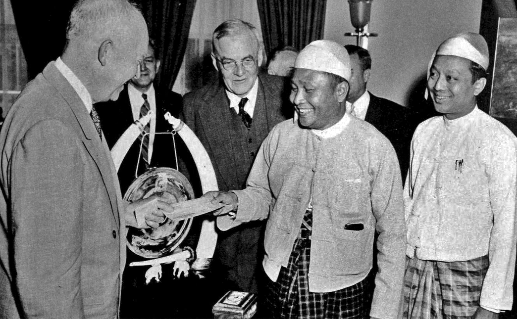 U Nu presenting a $5000 check to President Eisenhower for the families of Americans who fell in Burma in WWII. Looking on are John Foster Dulles and U Thant.